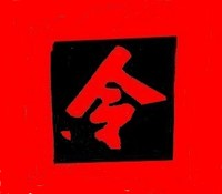 One of the war flags used by the Yihetuan (Righteous Harmony Society, or Fists of Righteous Harmony, popularly known as Boxers). Image based on a photo reproduced in the book "History and civilization of China" (Zhong Yang Wen Publishing, Beijing, 2006)